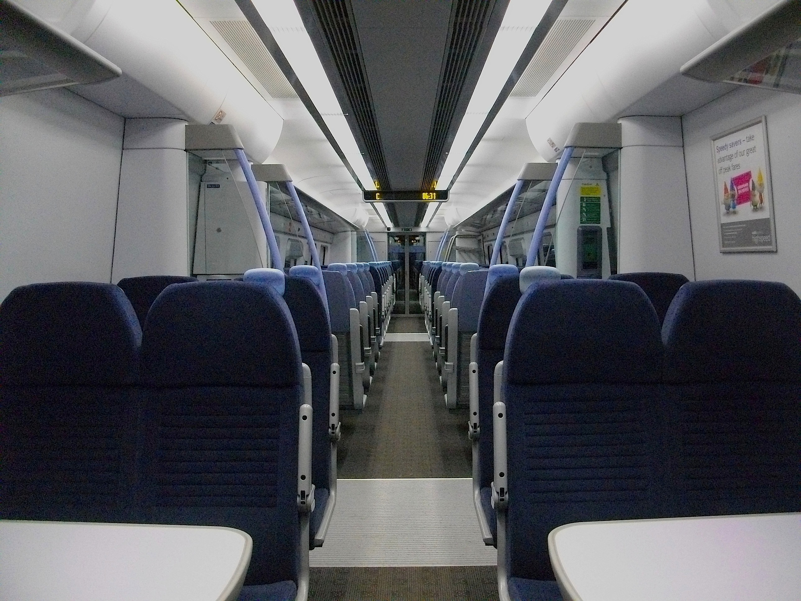 The interior of an MS vehicle from a Hitachi Class 395 EMU